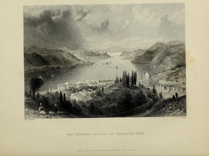 Beylerbeyi Palace between 1809-1838